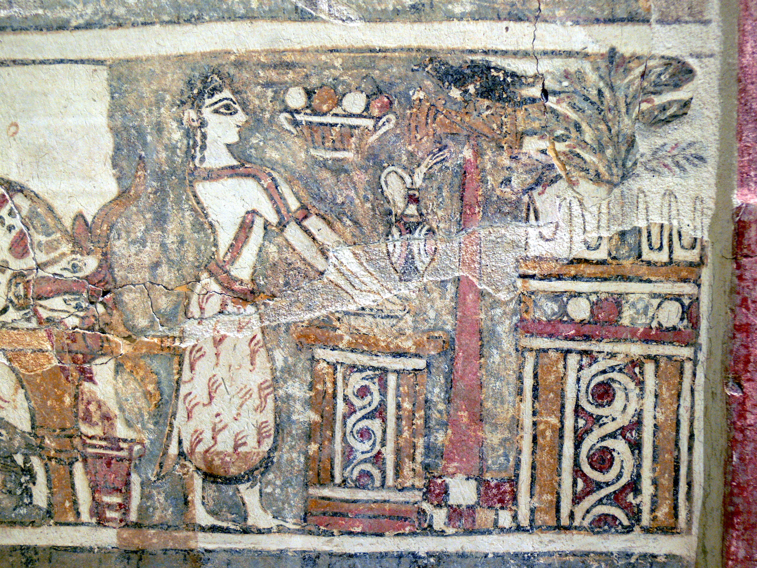 Archaeological Museum of Herakleion. Sarcophagus of Agia Triada ( 1600 - 1450 B.C.) - detail: Priestess sacrificing at an altar adorned with bull horns.